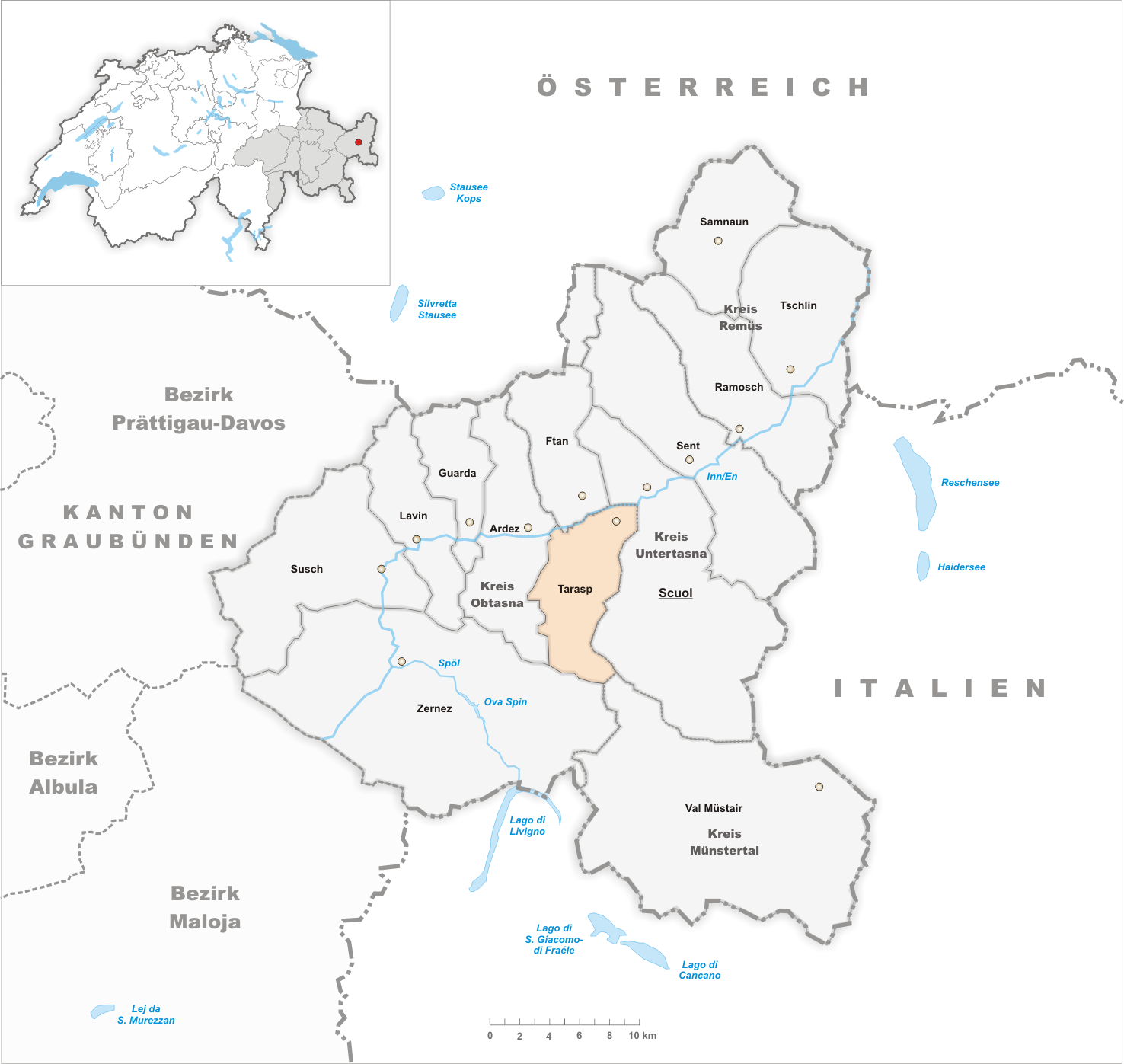 Municipality Tarasp